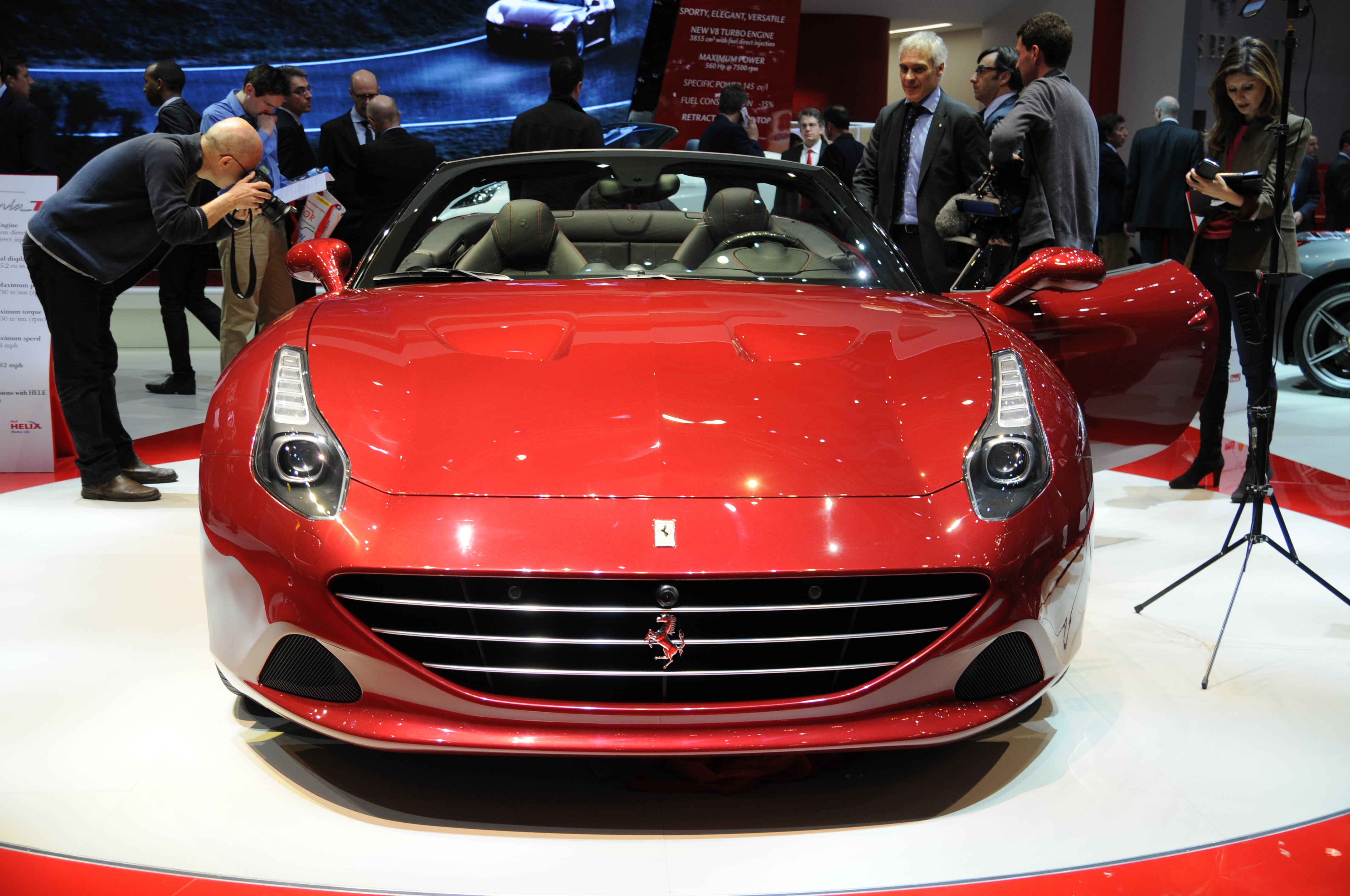 Geneva Motor Show 2014 (photo taken on the first press day)